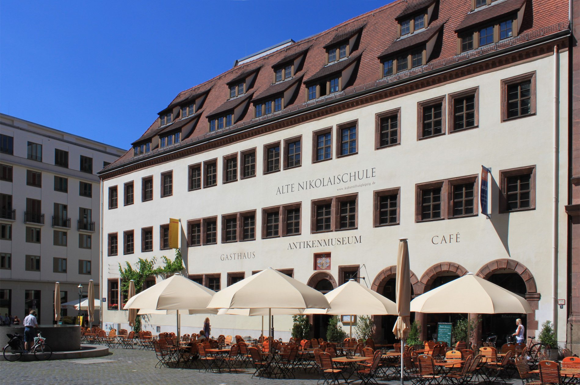 Alte Nikolaischule Leipzig